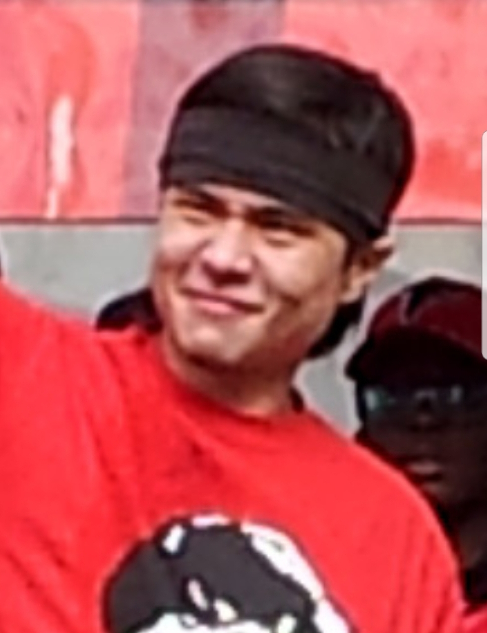 Cropped version of image already on Wikipedia